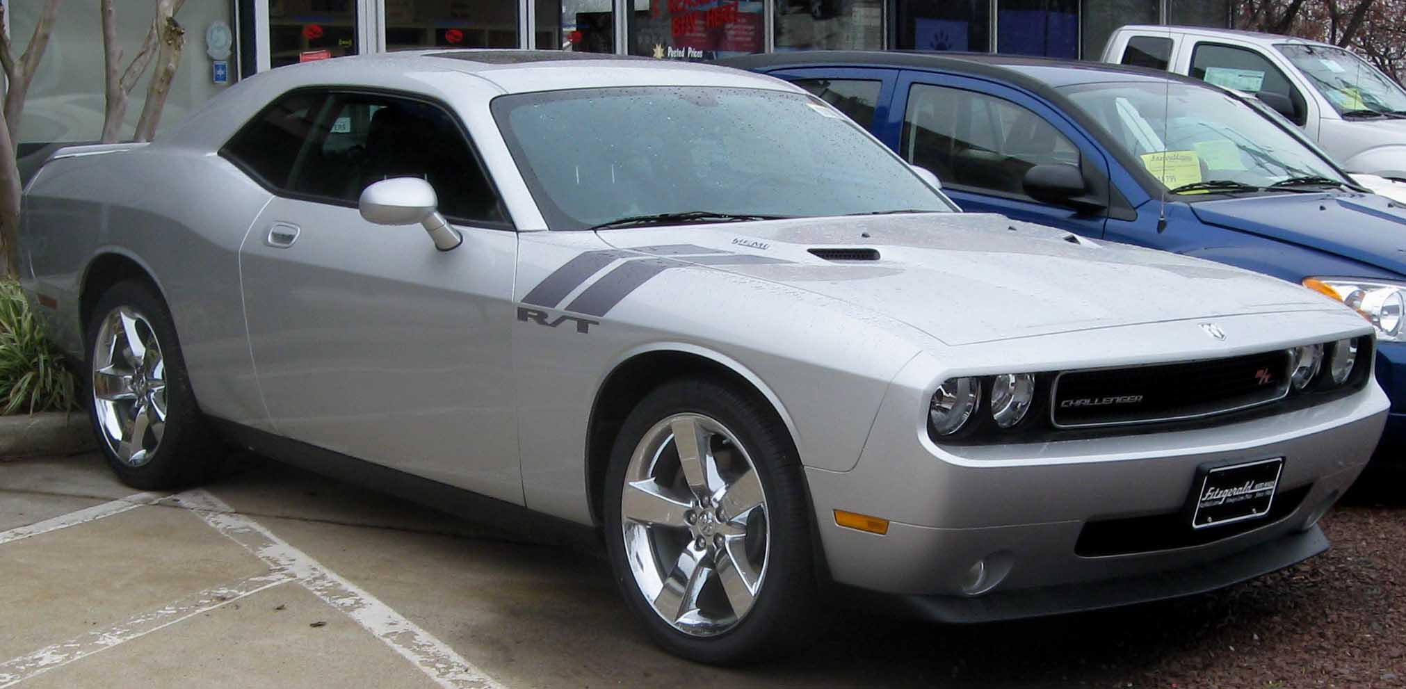 2009 Dodge Challenger R/T photographed in Wheaton, Maryland, USA.